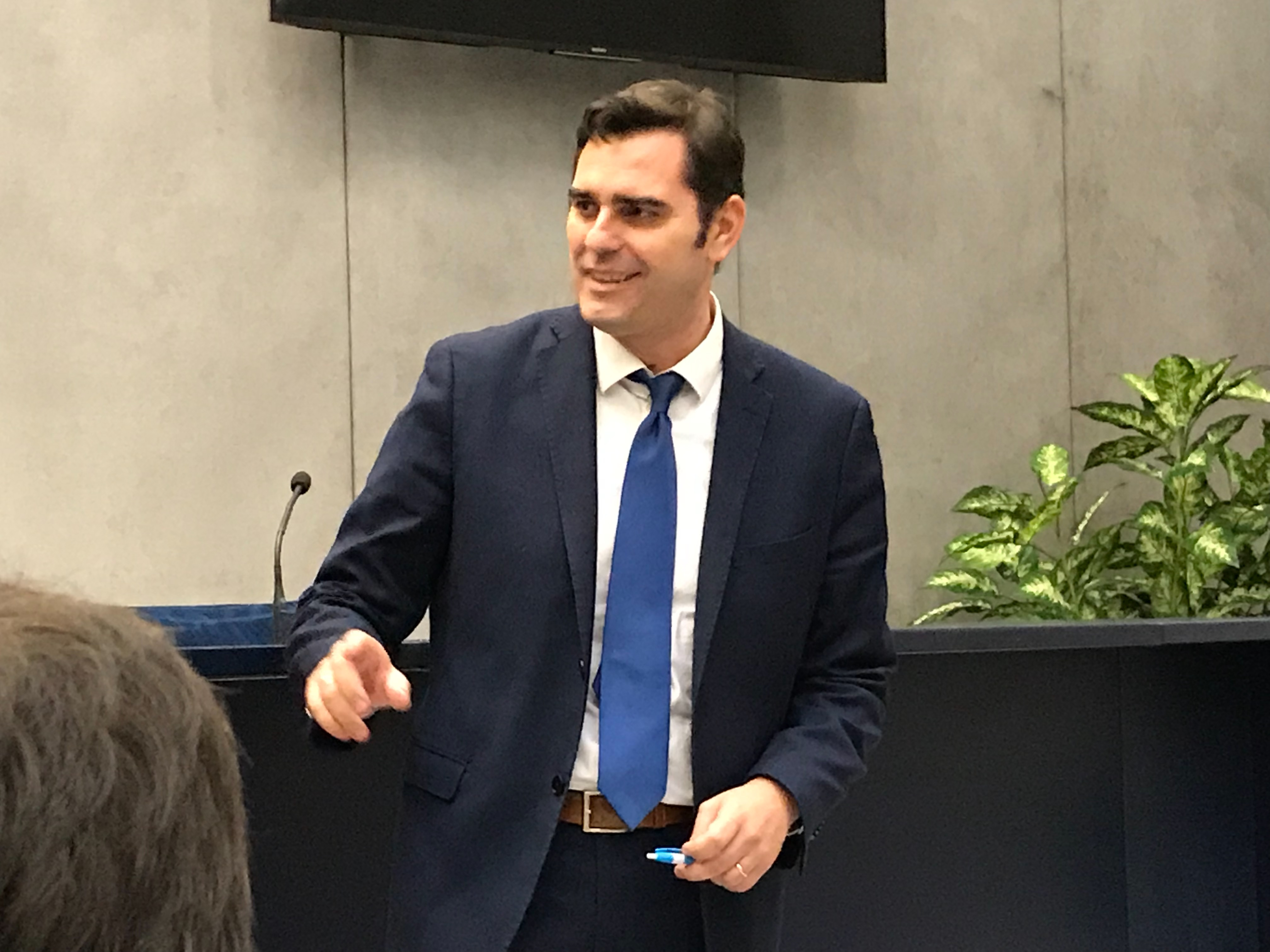 Roma, Itàlia, January 2019